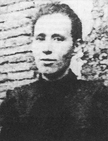 Virginia Bolten, argentine anarcha-feminist editor of "La Voz de la Mujer", circa 1902.